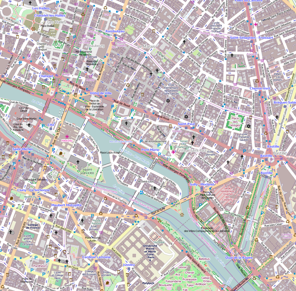 Map Paris 4th arrondissement.